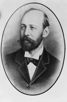 Joseph Cook, 3 August 1894.